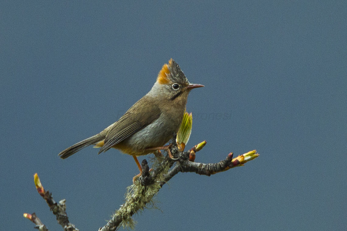 Rufous-vented Yuhina - Bhutan_S4E9783